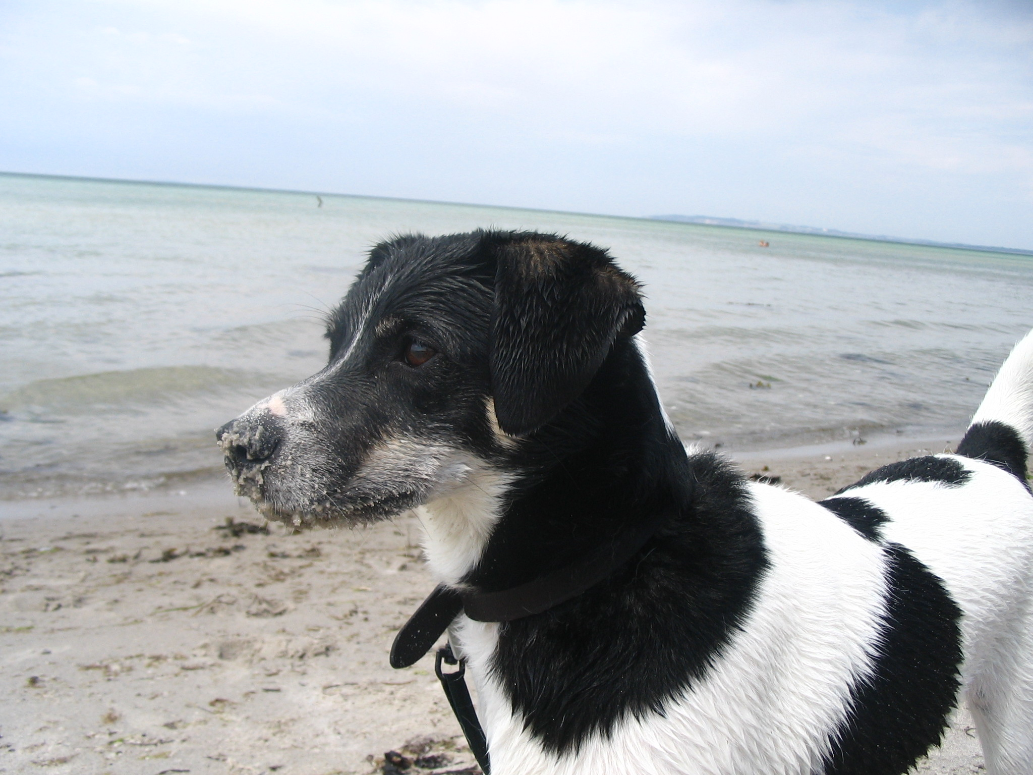 Danish/Swedish farmdog at the beach.